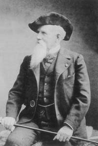 Lucio V. Mansilla en 1895